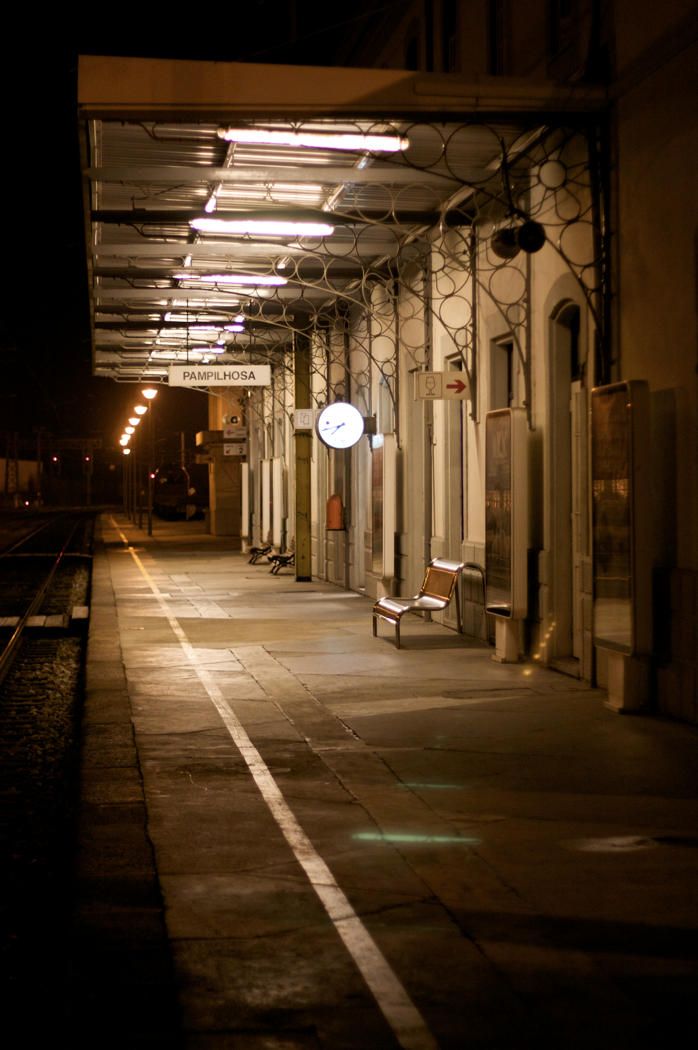 The platform of Pampilhosa train station, Pampilhosa, Mealhada, Aveiro District, Portugal.